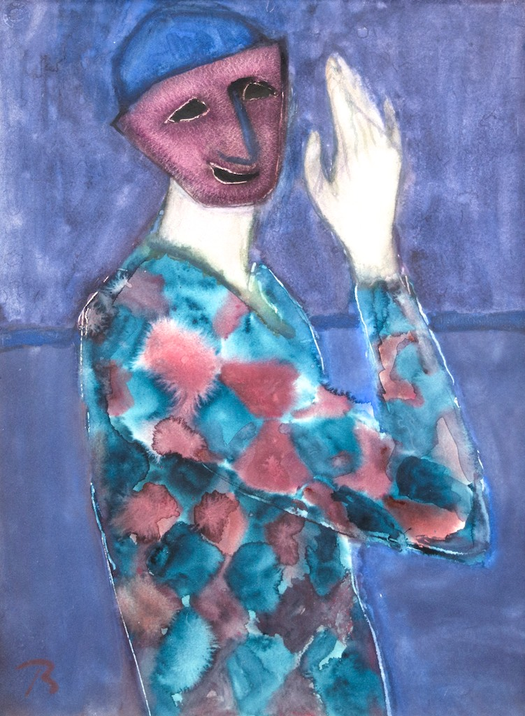 Herbert Beck: Harlequin with Mask, 1963/ 64, watercolor, c. 71 x 50 cm